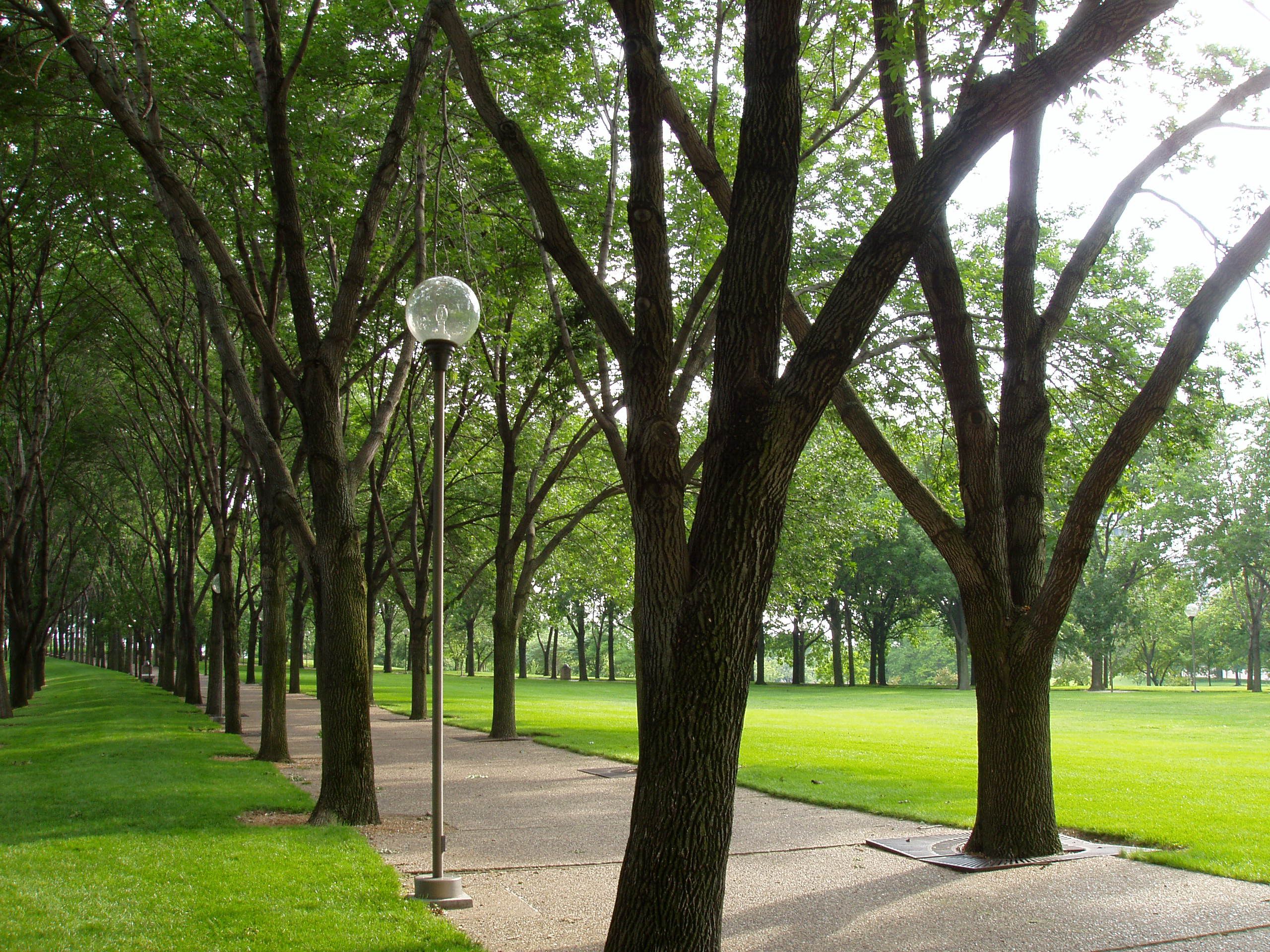 Grounds of the Gateway Arch National Park (formerly Jefferson National Expansion Memorial) to the side of the Gateway Arch, Saint Louis, Missouri, USA. These grounds were designed by noted modernist landscape architect Dan Kiley.